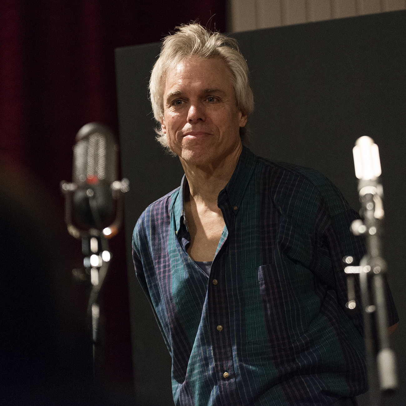 Gerry Hemingway, jazz drummer